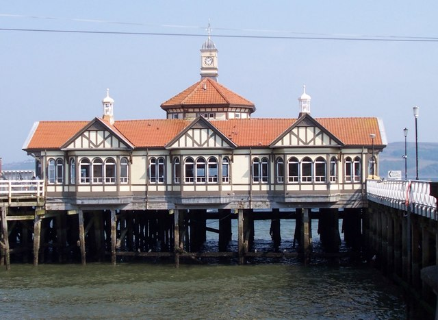 Dunoon Pier Viewed from the main road.